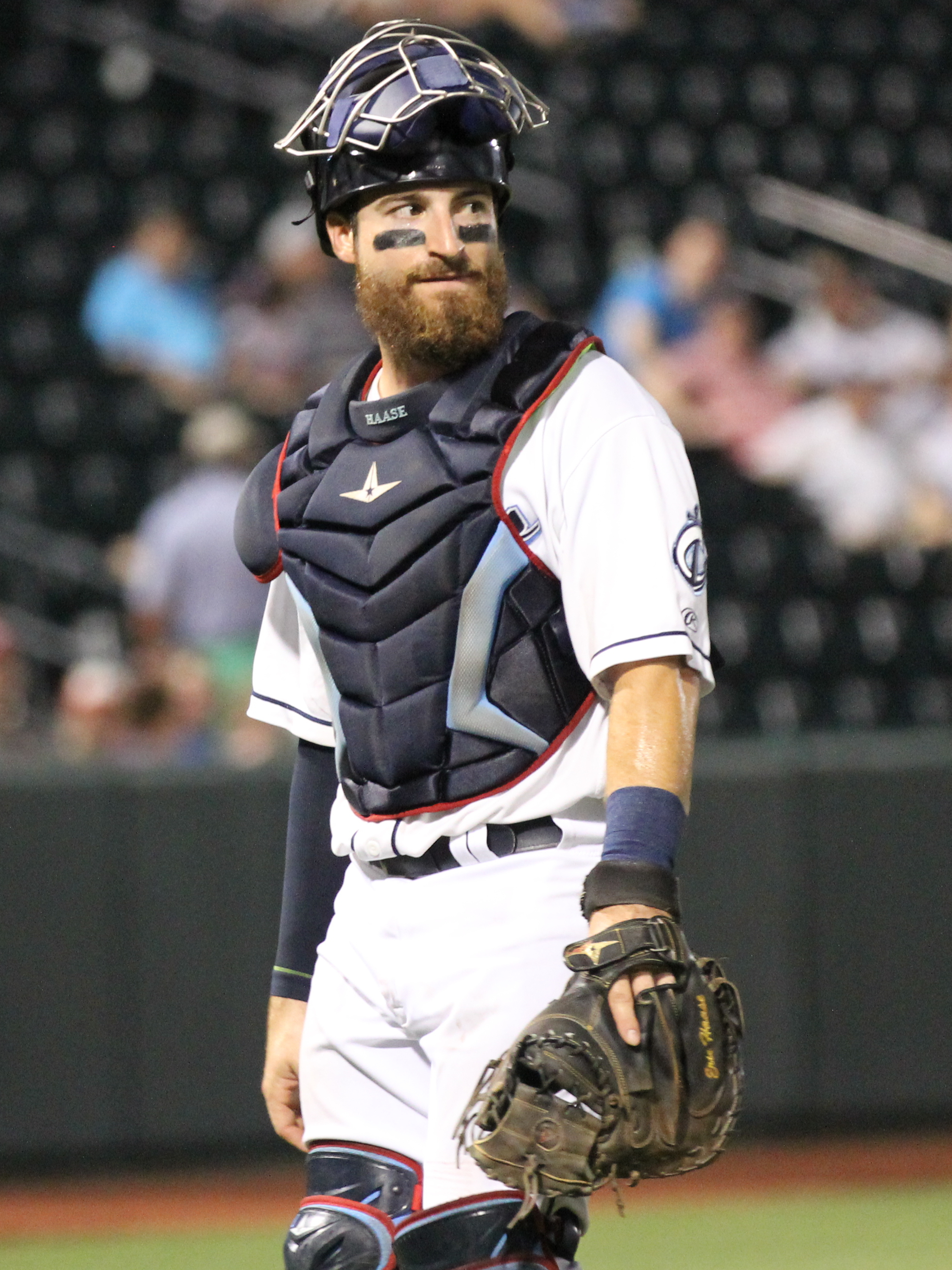 Eric Haase with the Columbus Clippers at Huntington Park in Colmbus, Ohio in 2018